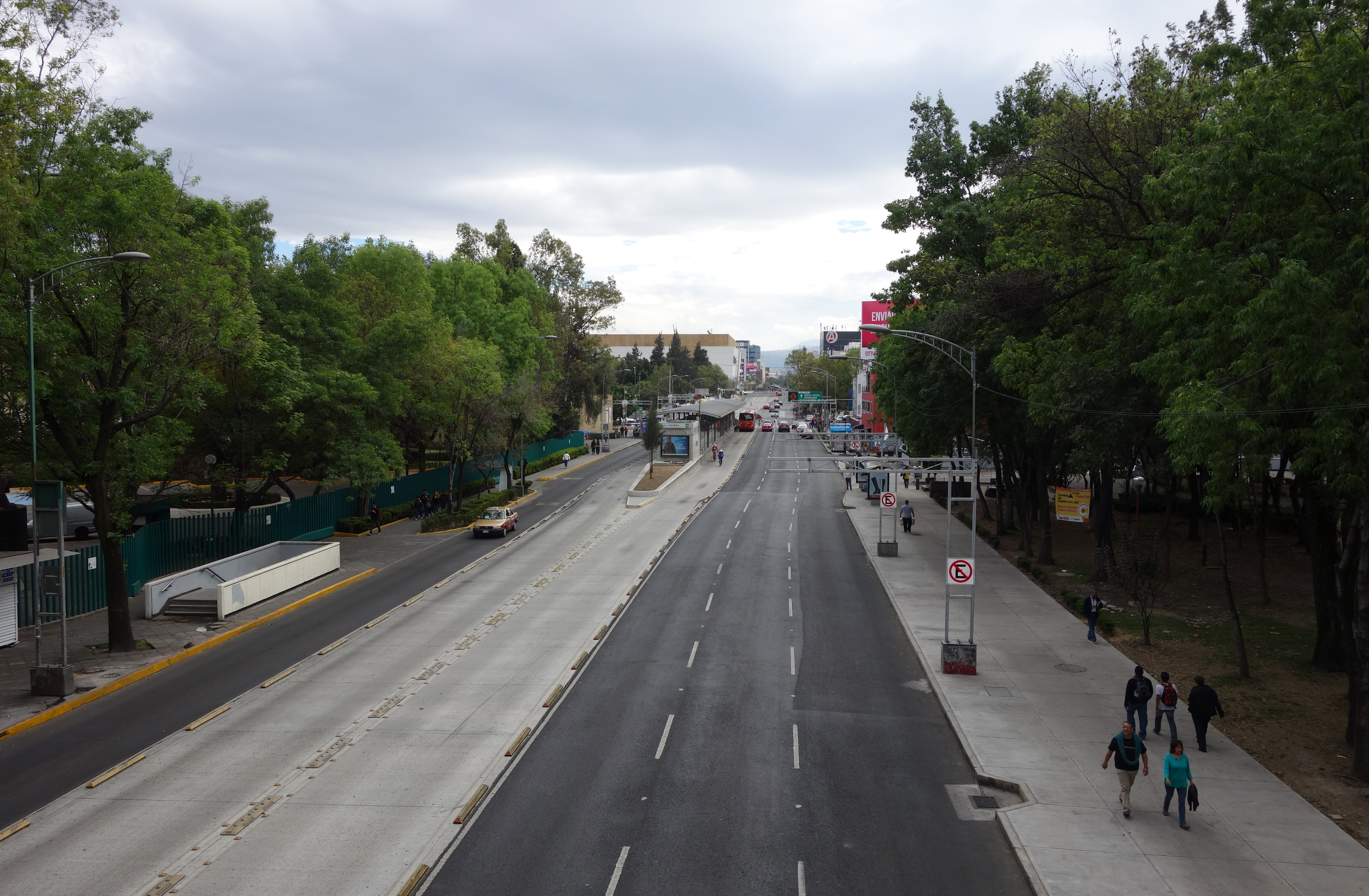 Avenida Cuauhtémoc at the height of Jardín Ramón López Velarde in Mexico City, seen southwards